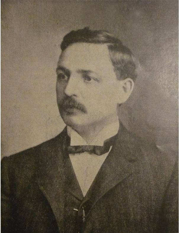 This is a photograph of William Thomas Rawleigh circa 1900.